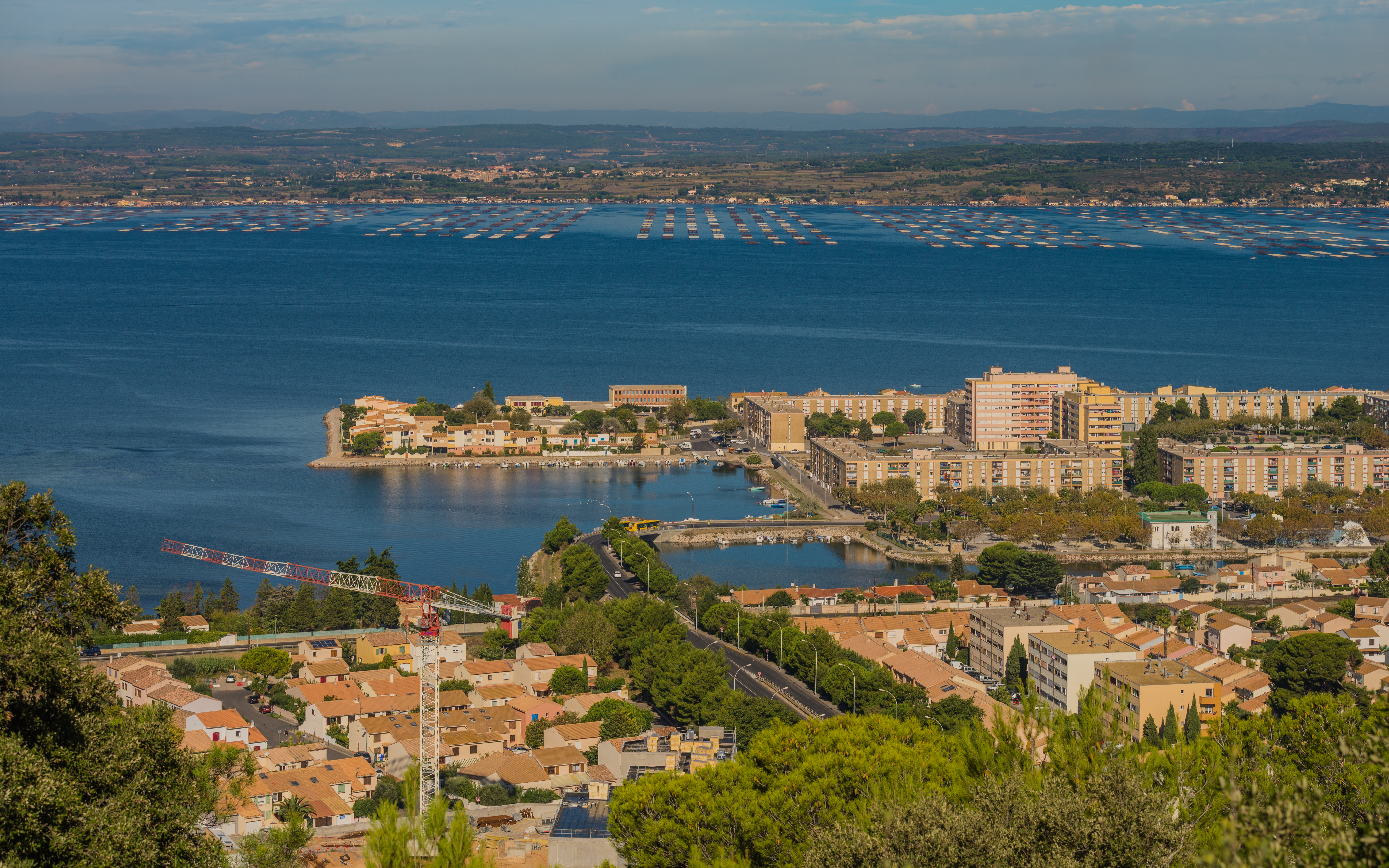 In the foreground the Southwestern part of the Ile de Thau Neighbourhood and the Étang de Thau. In background on the opposite bank the commune of Loupian and its oyster farms. Sète, Hérault, France.